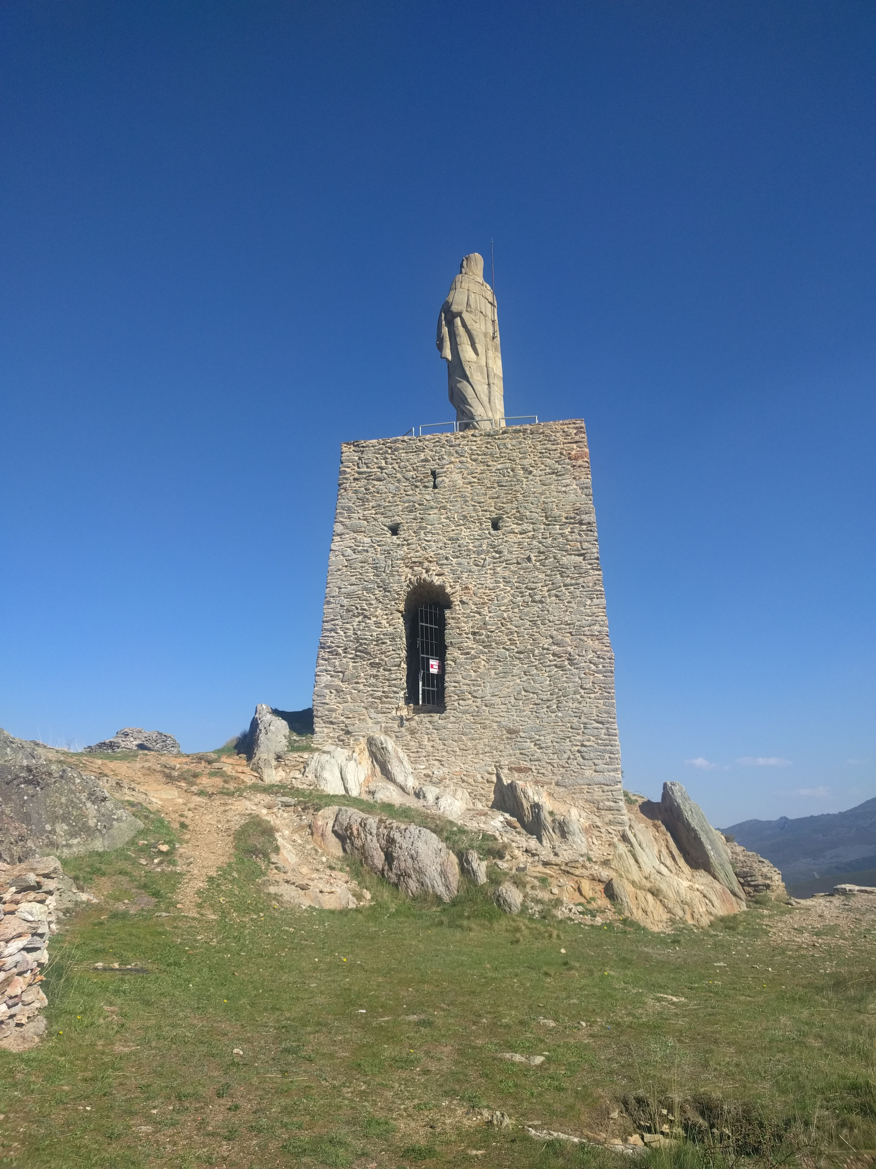 Estatua del Sagrado Corazón en el castillo de Peñarramiro en Valdavido